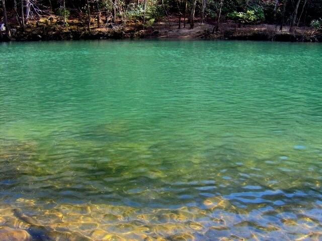 The Caney Fork River at the base of Scott's Gulf in White County, Tennessee, located in the Southeastern United States. This view is from a break in the treeline along the Caney Fork Trail, just past the Virgin Falls Trail intersection.